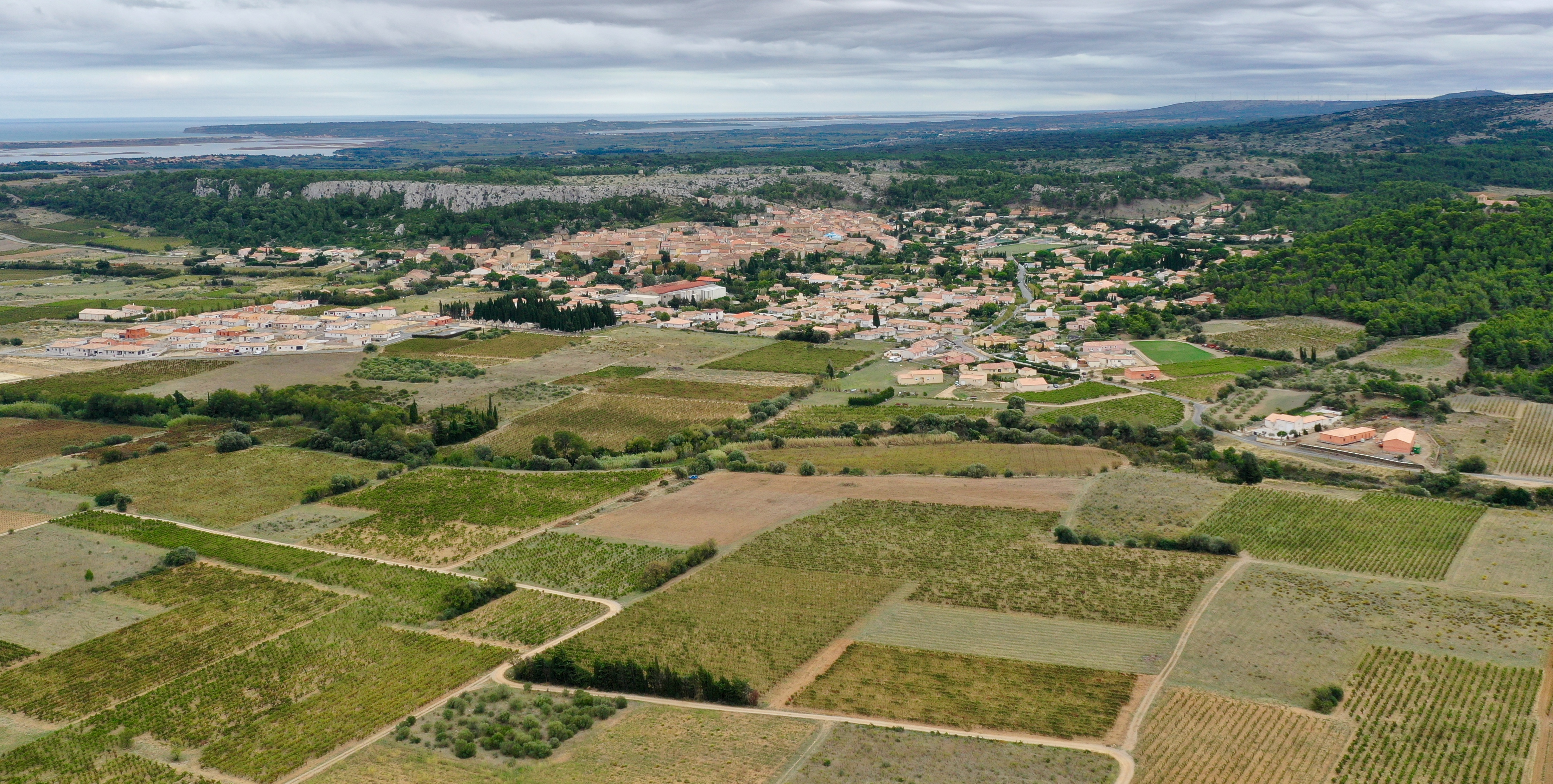 Aerial view on the village Roquefort-des-Corbières